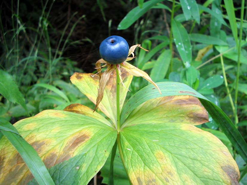 Description: Paris quadrifolia - Einbeere (Seitenansicht) Source: selbst fotografiert Date: 25. Aug. 2005 15h Photographer: Michael Gasperl (Migas) Location: AUT/Stmk/Tauplitz-Steirersee